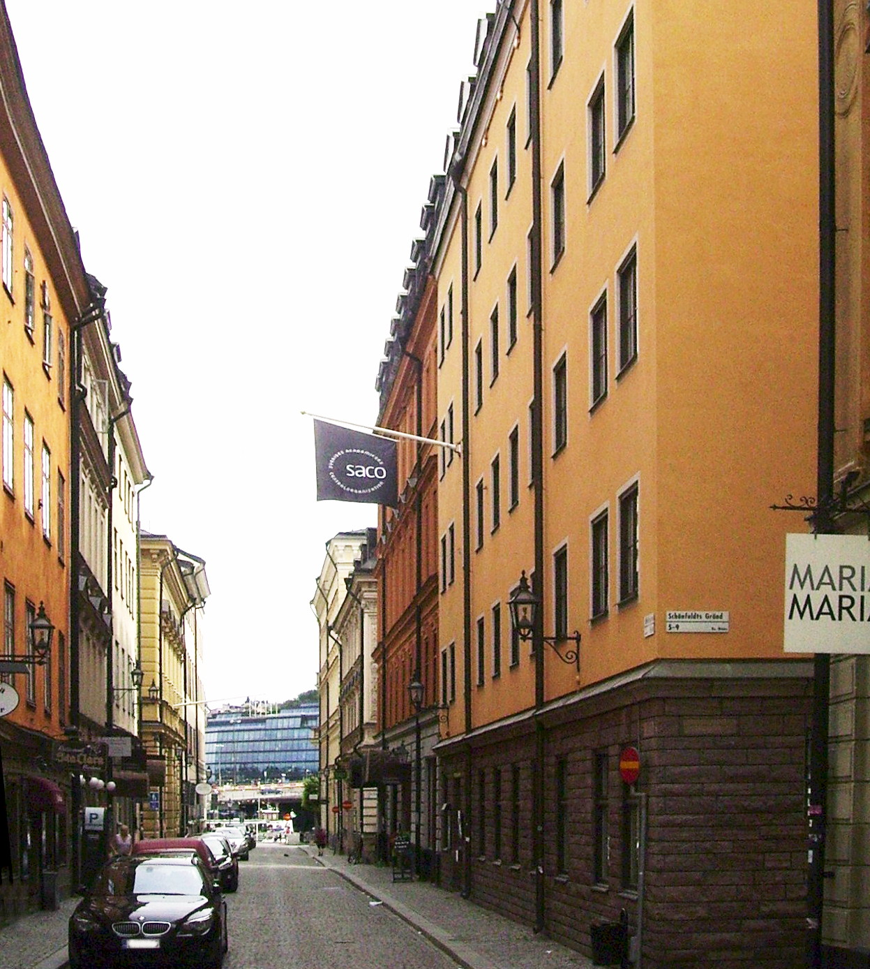 Picture of SACO building on Lilla Nygatan, Gamla stan in Stockholm